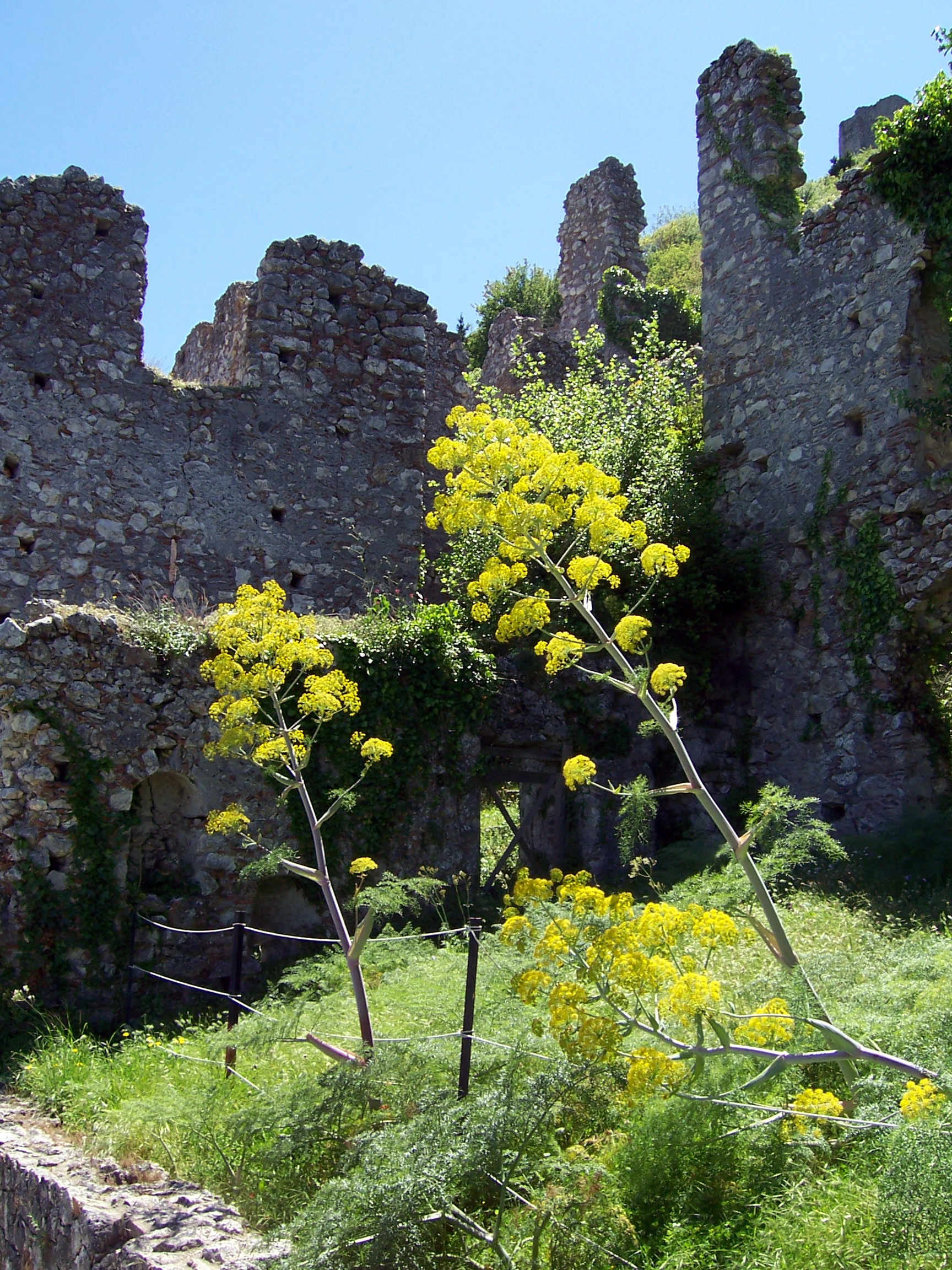 Little Palace or "Palataki" in Mystras (Details)